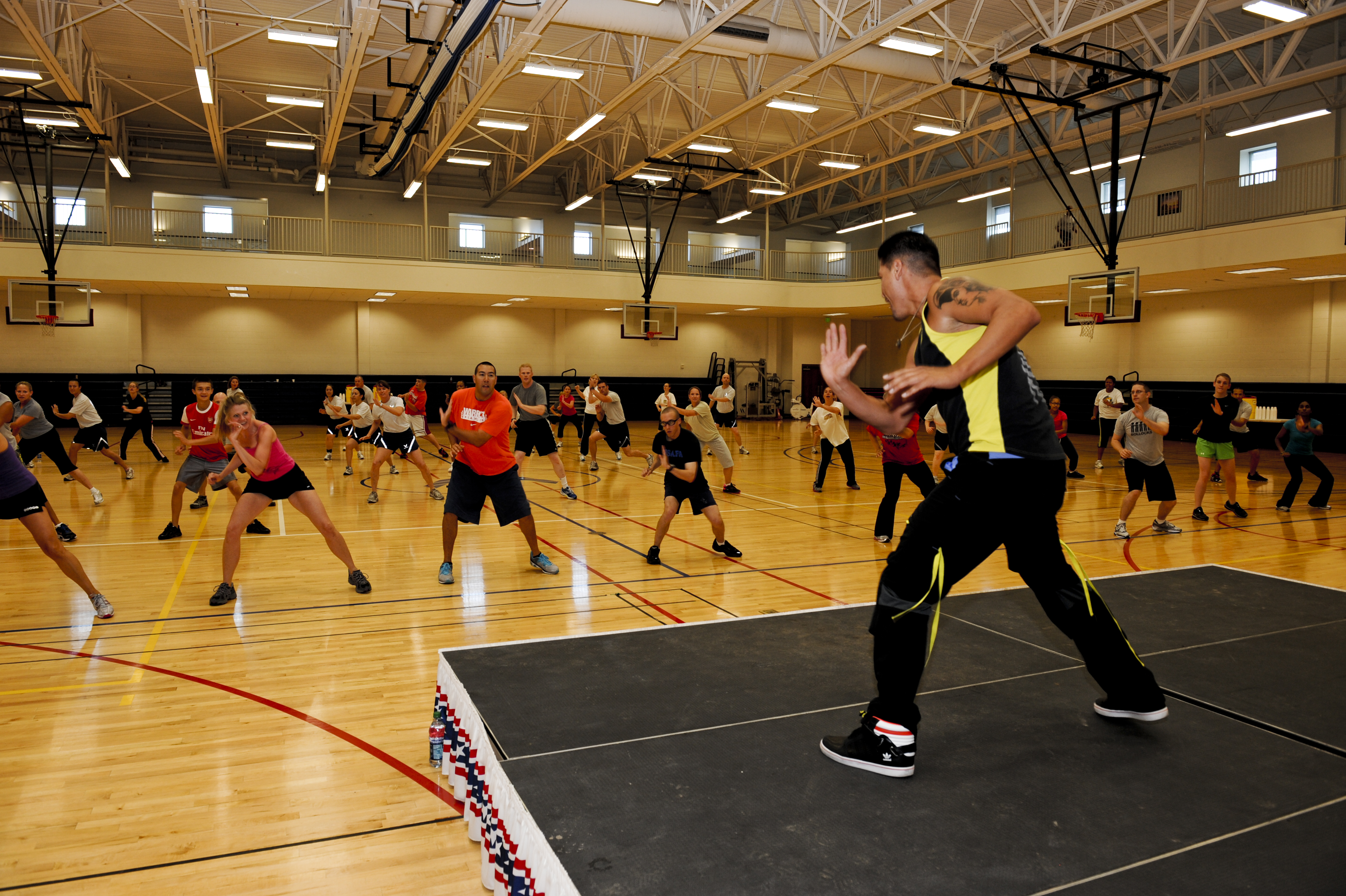 BUCKLEY AIR FORCE BASE, Colo. – Buckley service members participate in a Zumba session July 12, led by a local Denver fitness professional, to help raise money for Homes for Our Troops recipient Cpl. Nick Orchowski’s home. The event raised $500 toward the specially adapted home.